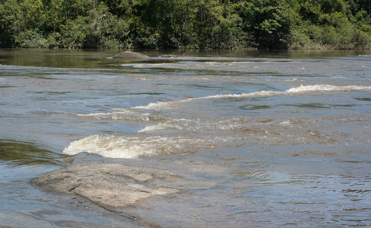 No rapids (Raleigh Falls!), due to high water, at Fungu Island, Suriname jungle.